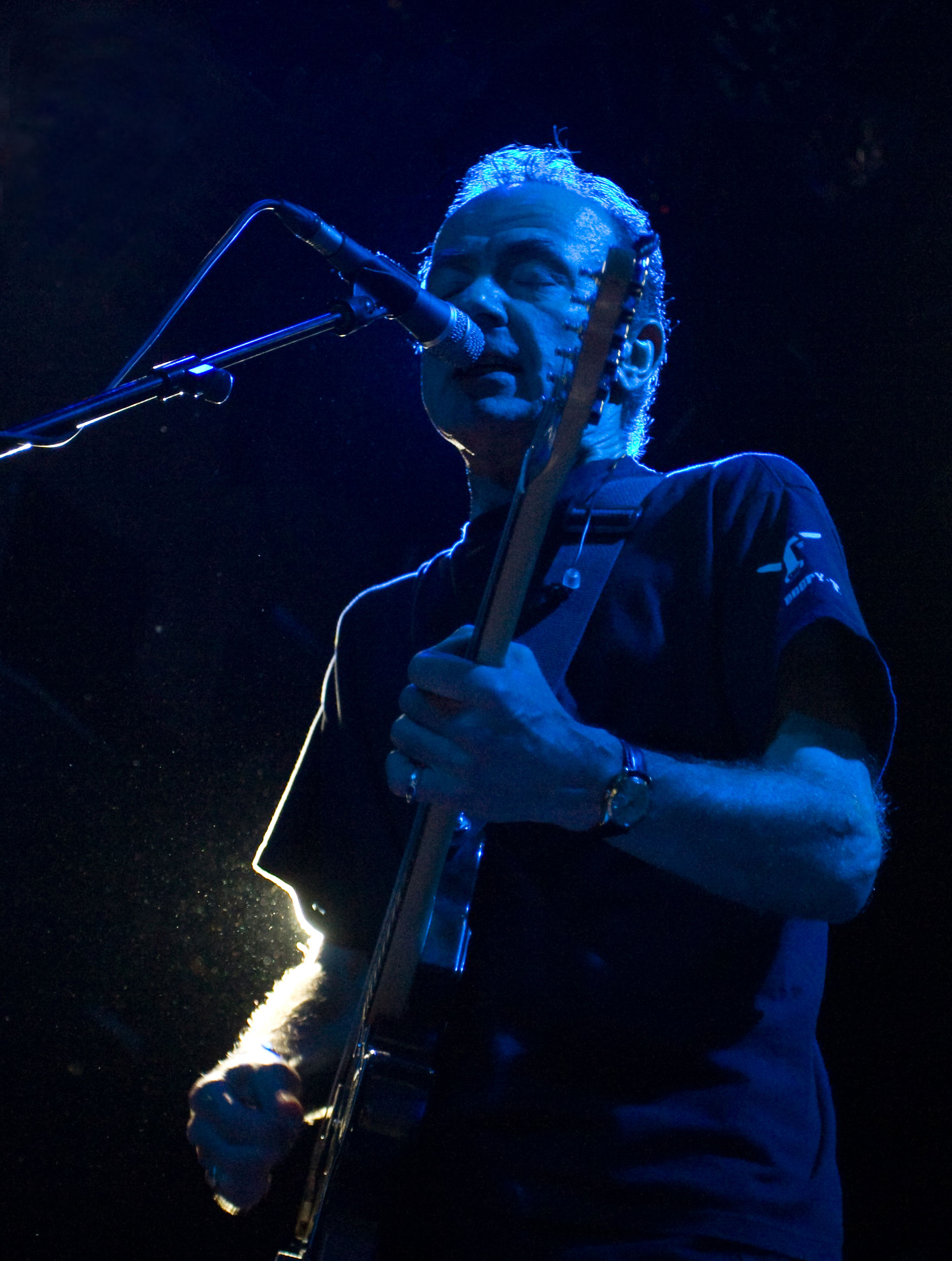 Live performance of Hugh Cornwell during his Hooverdam Tour 2009